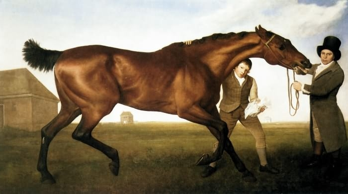 British racehorse "Hambletonian"